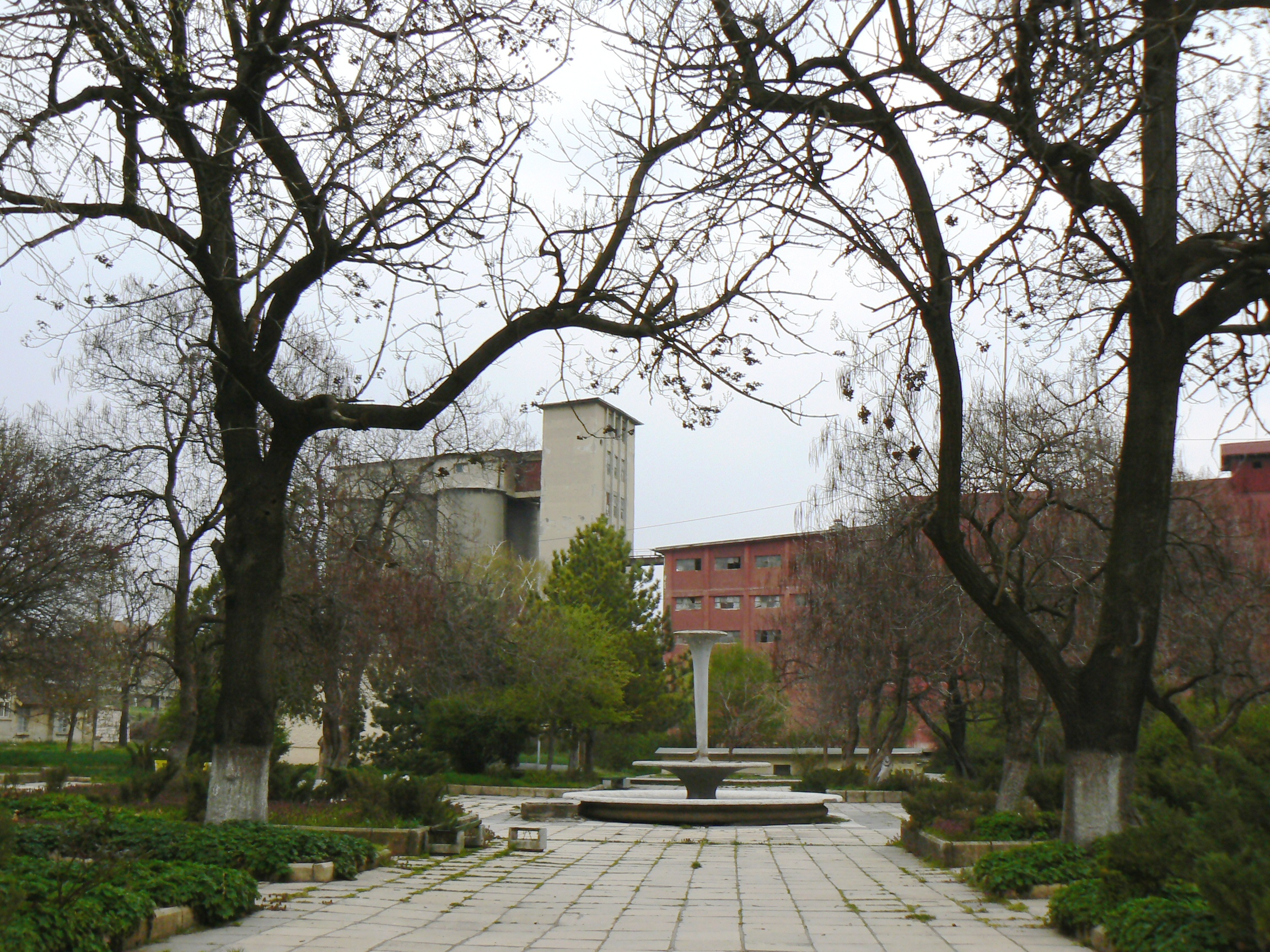 The centre of the town of Kaspichan, Bulgaria